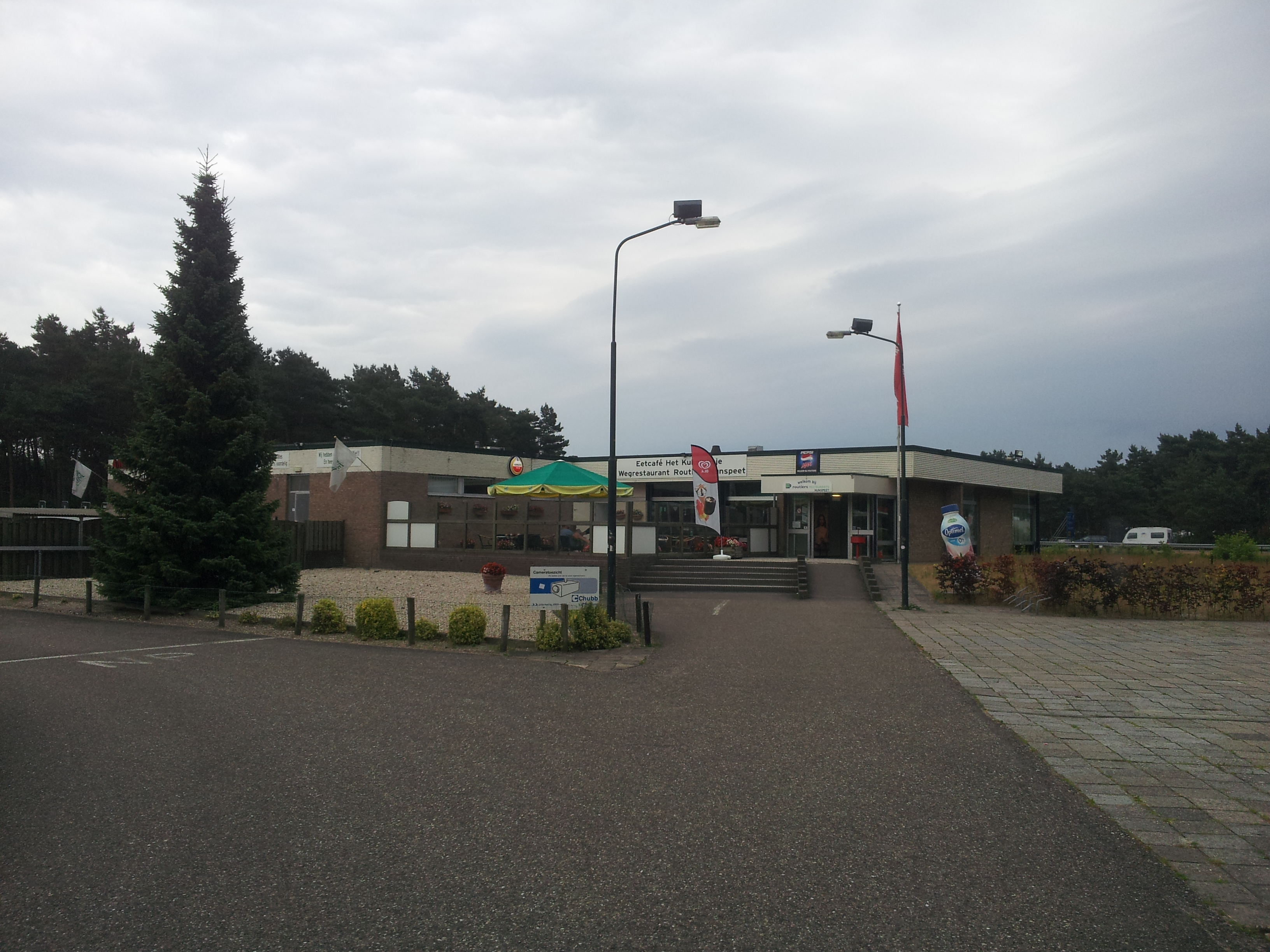 Rest area Hendriksbos